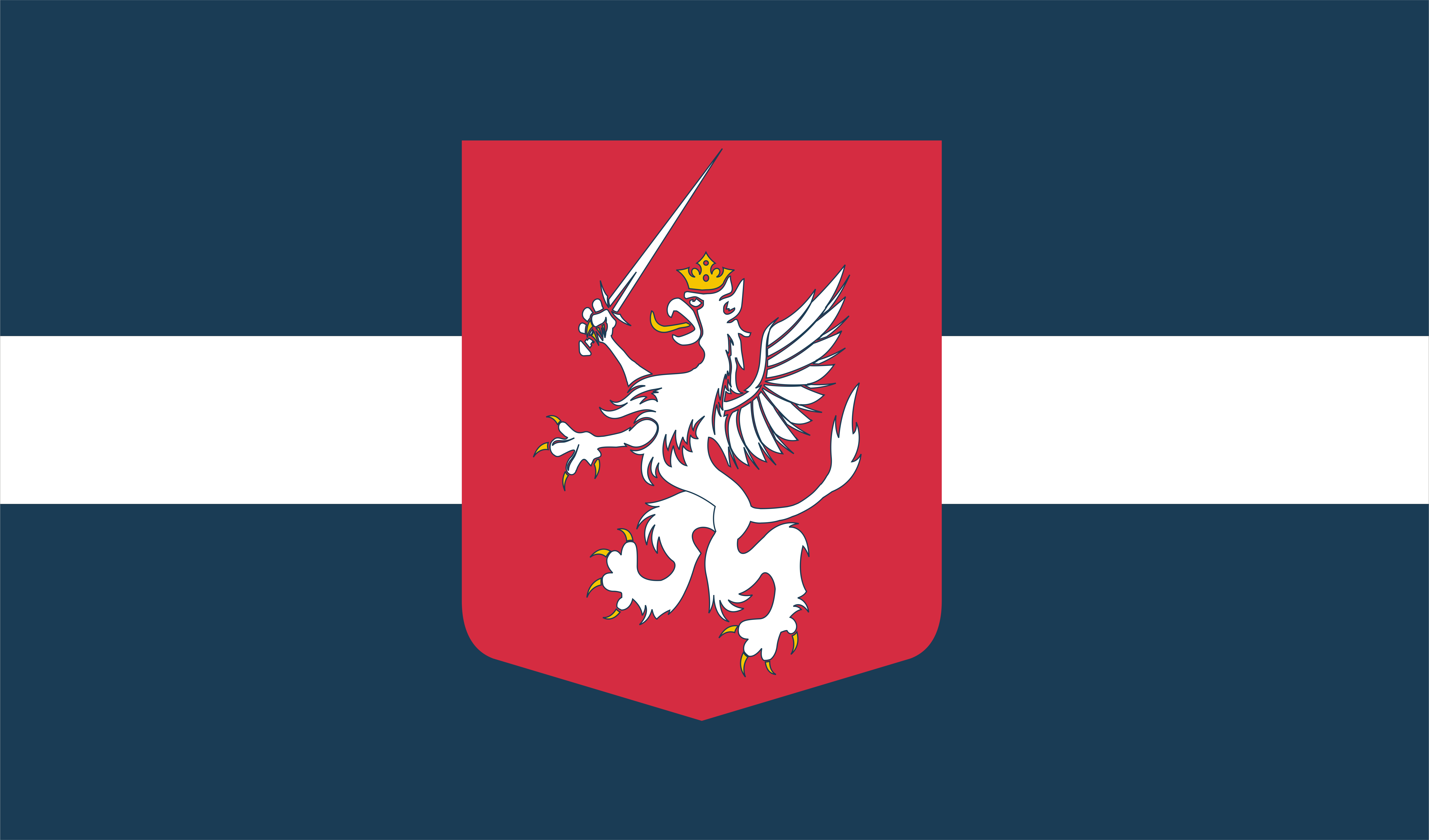 Flag of Latgalians and Latgalia, approved by "Latgolys Saeima" ("Latgalian Parliament") Latgaļu: Latgalīšu i Latgolys karūgs, apstyprynuots "Latgolys Saeimā"